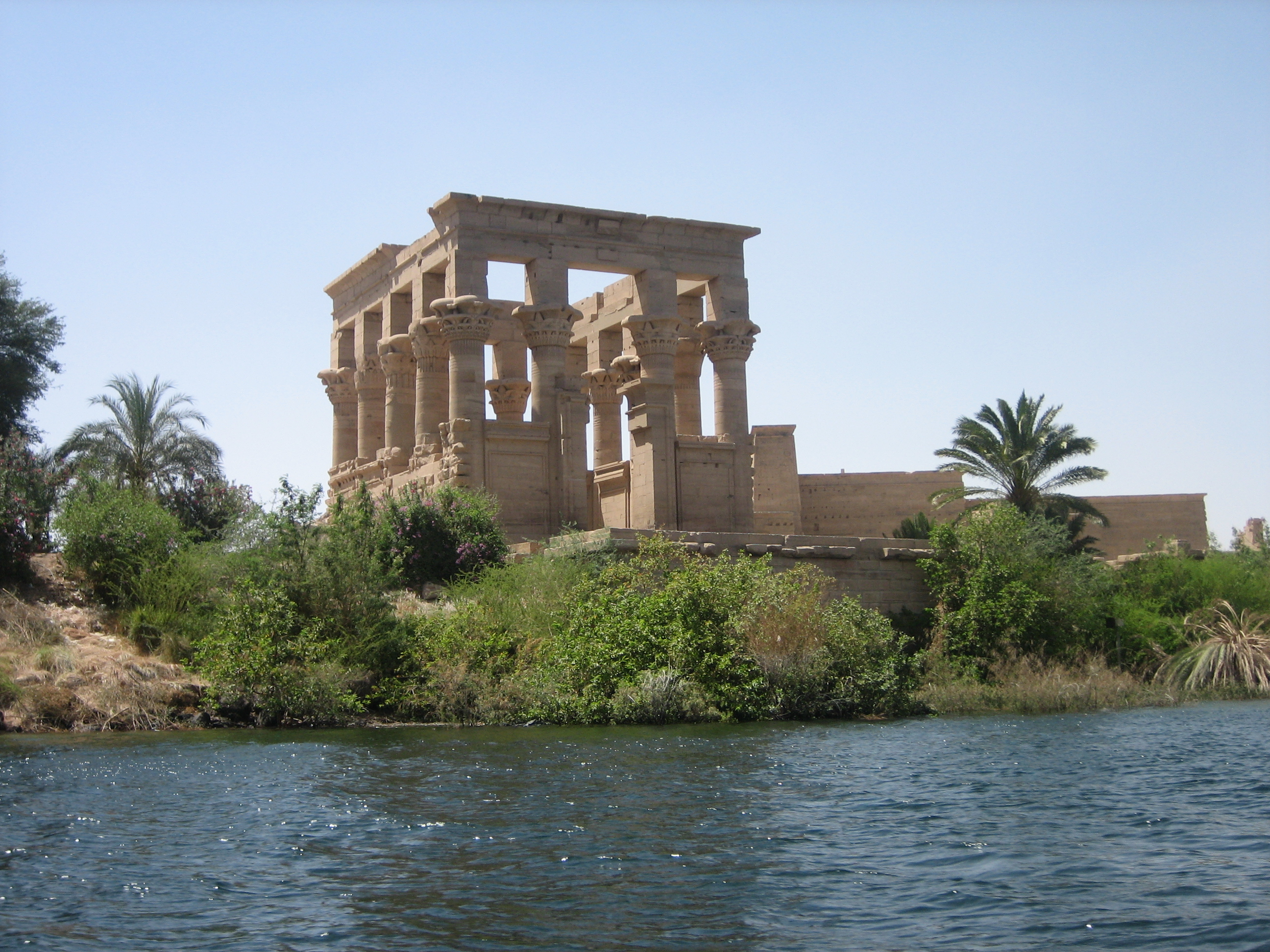 Temple of Philae